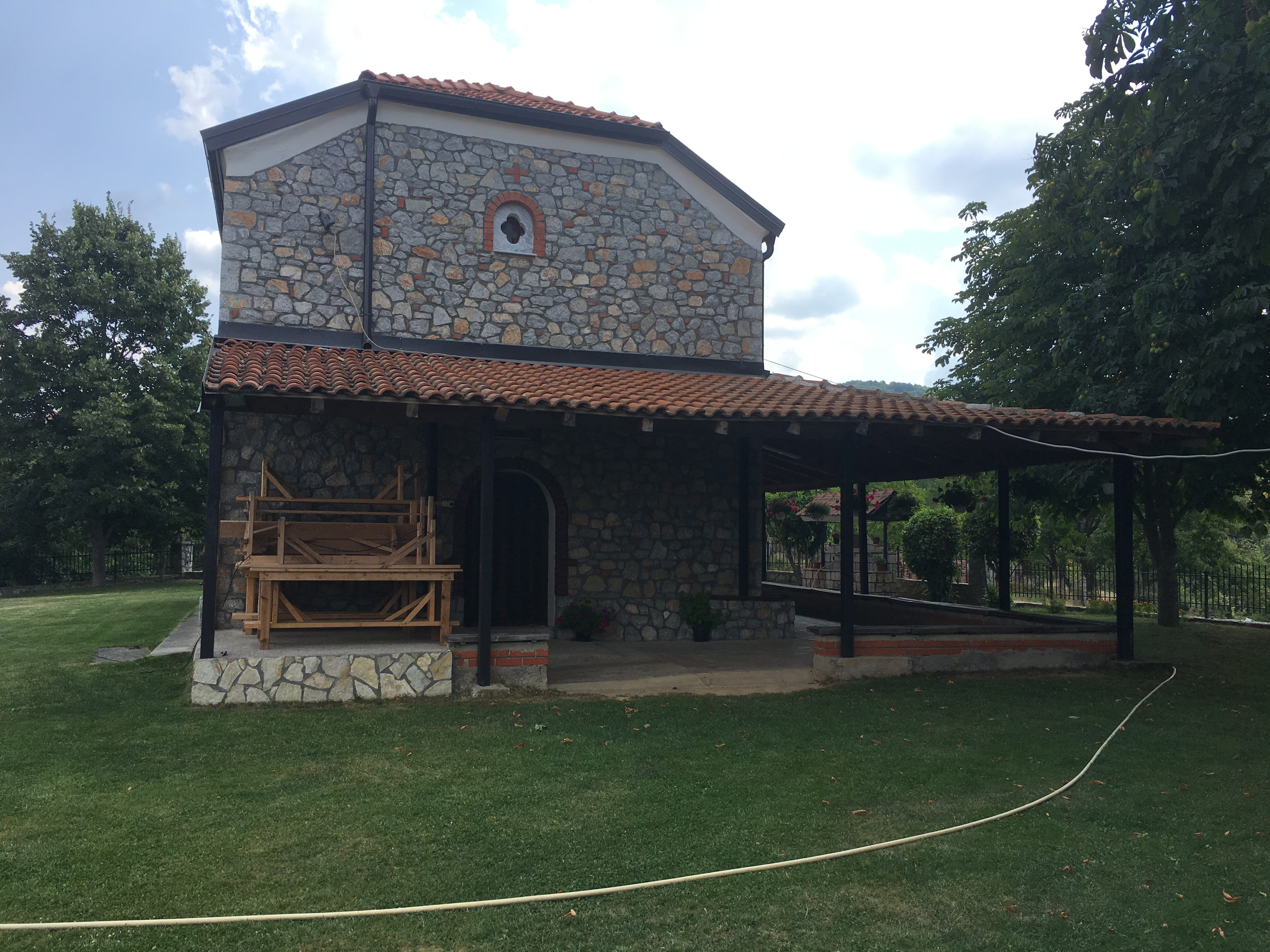 Nativity of the Theotokos Church in the village of Zavoj